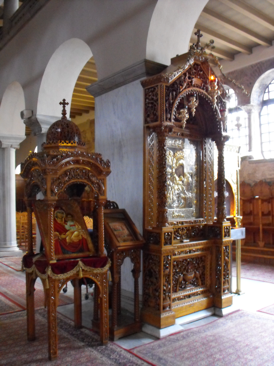 Icon of the Theotokos inside a large kiot. Two kiot with an analogion in between.